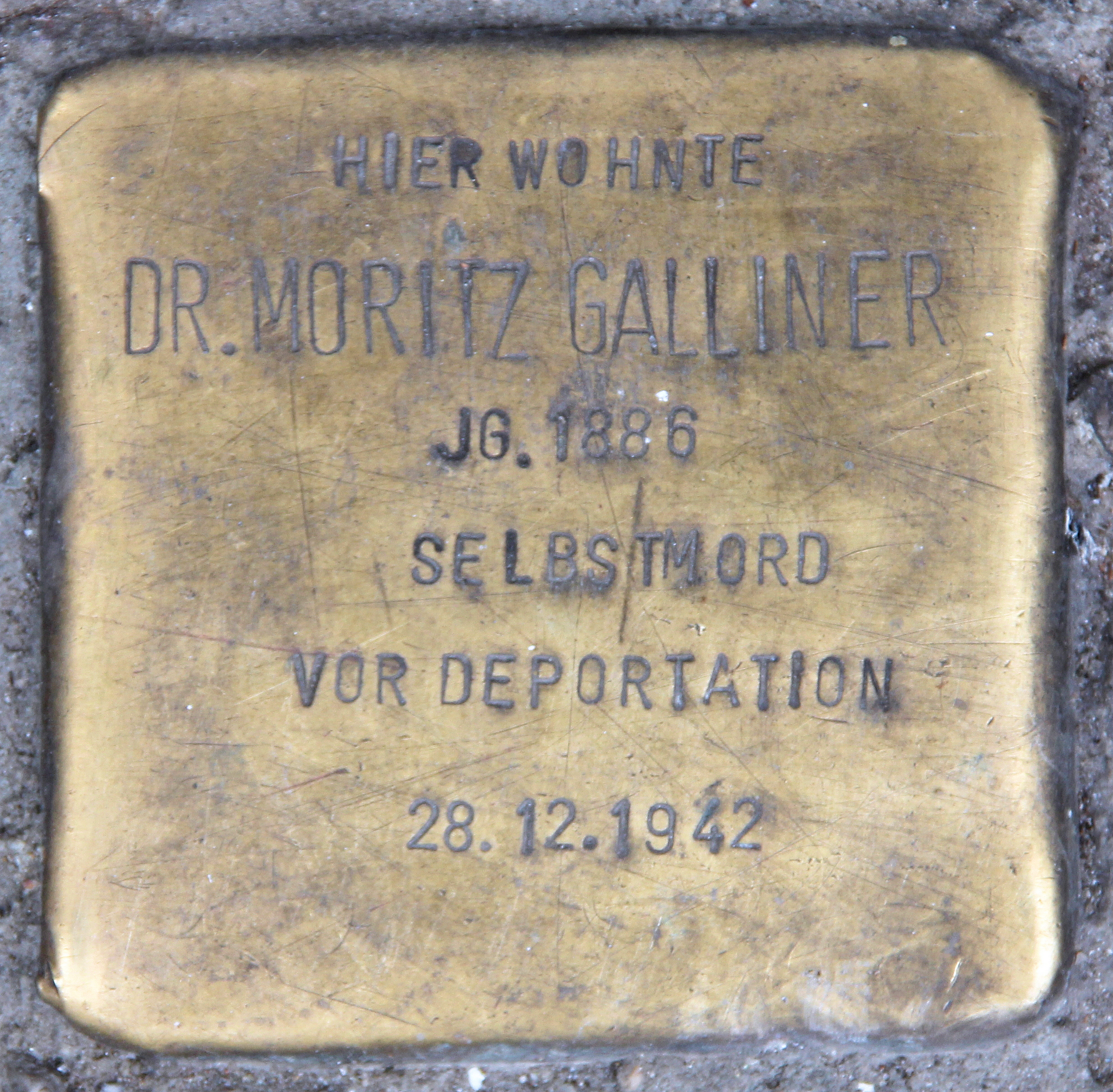 "Stolperstein" (stumbling block), Moritz Galliner, Martin-Luther-Straße 12, Berlin-Schöneberg, Germany Koordinate:52°29′55″N 13°20′45″E / 52.49861°N 13.34583°E